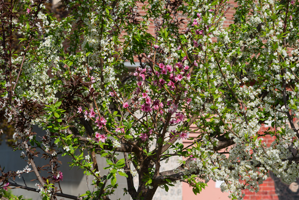 Tree of 40 Fruit by Sam Van Aken courtesy Ronald Feldman Fine Art - Tree 75 flowering.